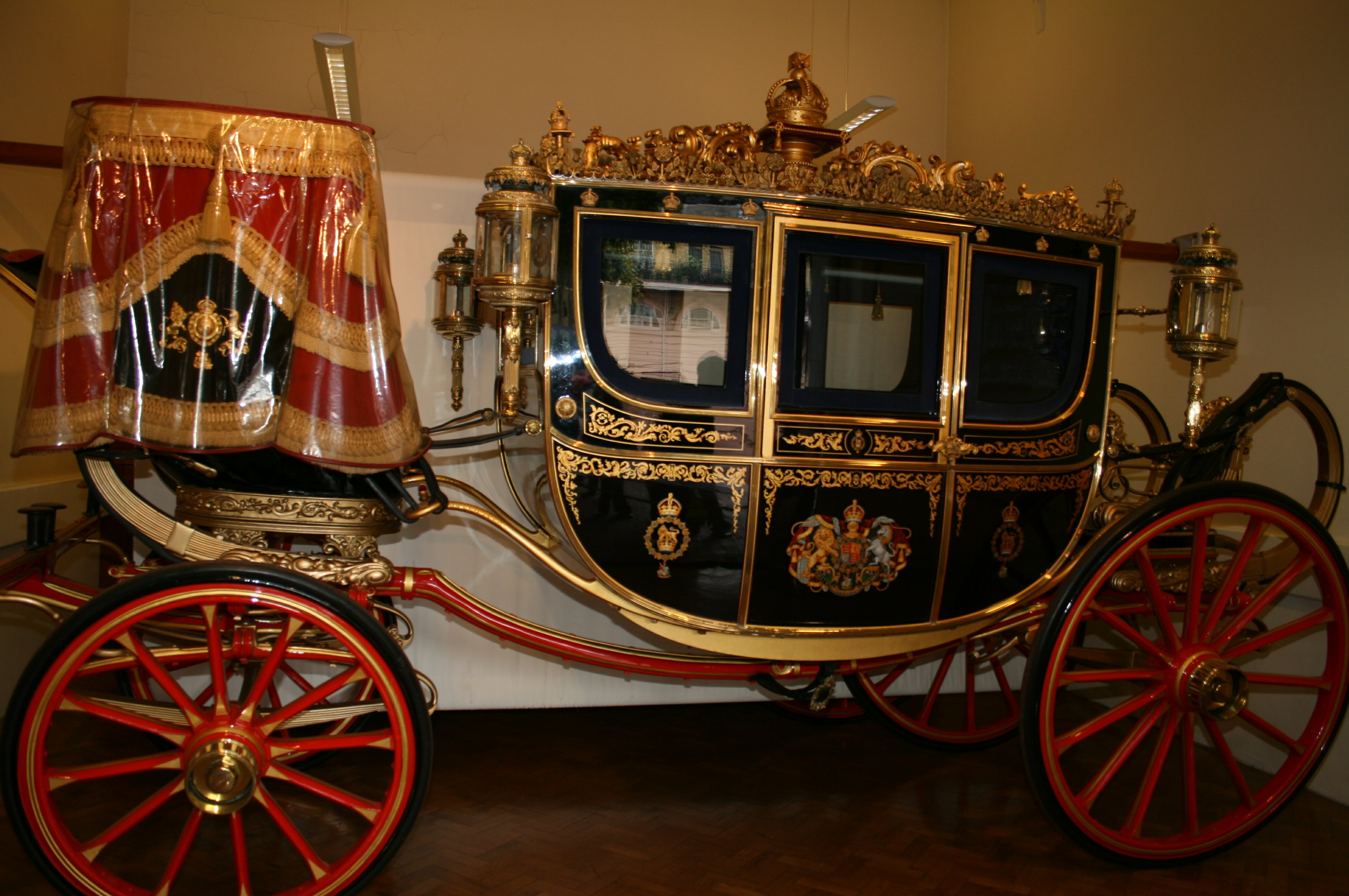 Irish State Coach In and around London